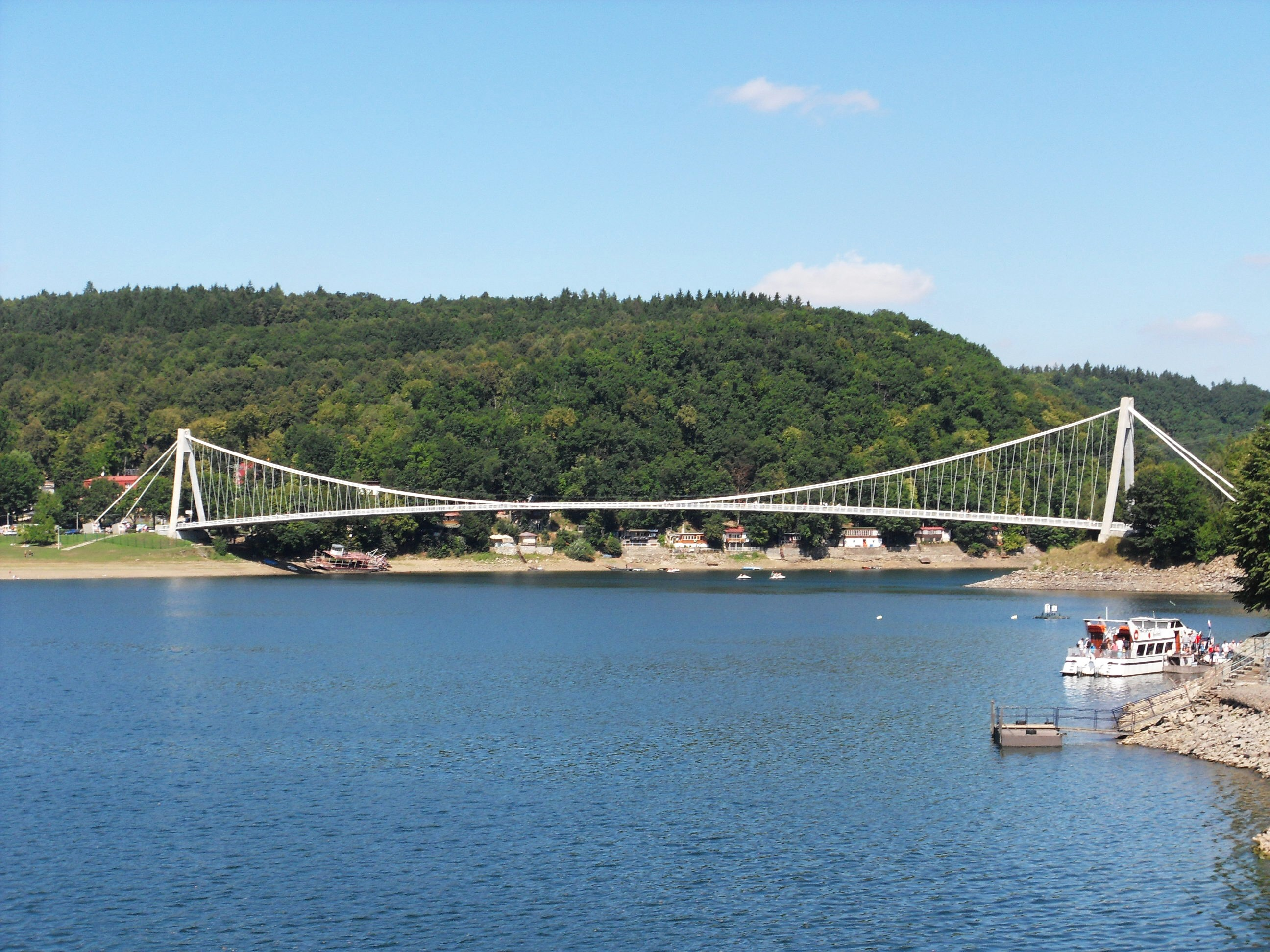 Footbridge across Swiss Bay, Vranov reservoir, Vranov nad Dyjí, Znojmo district, Czech Republic